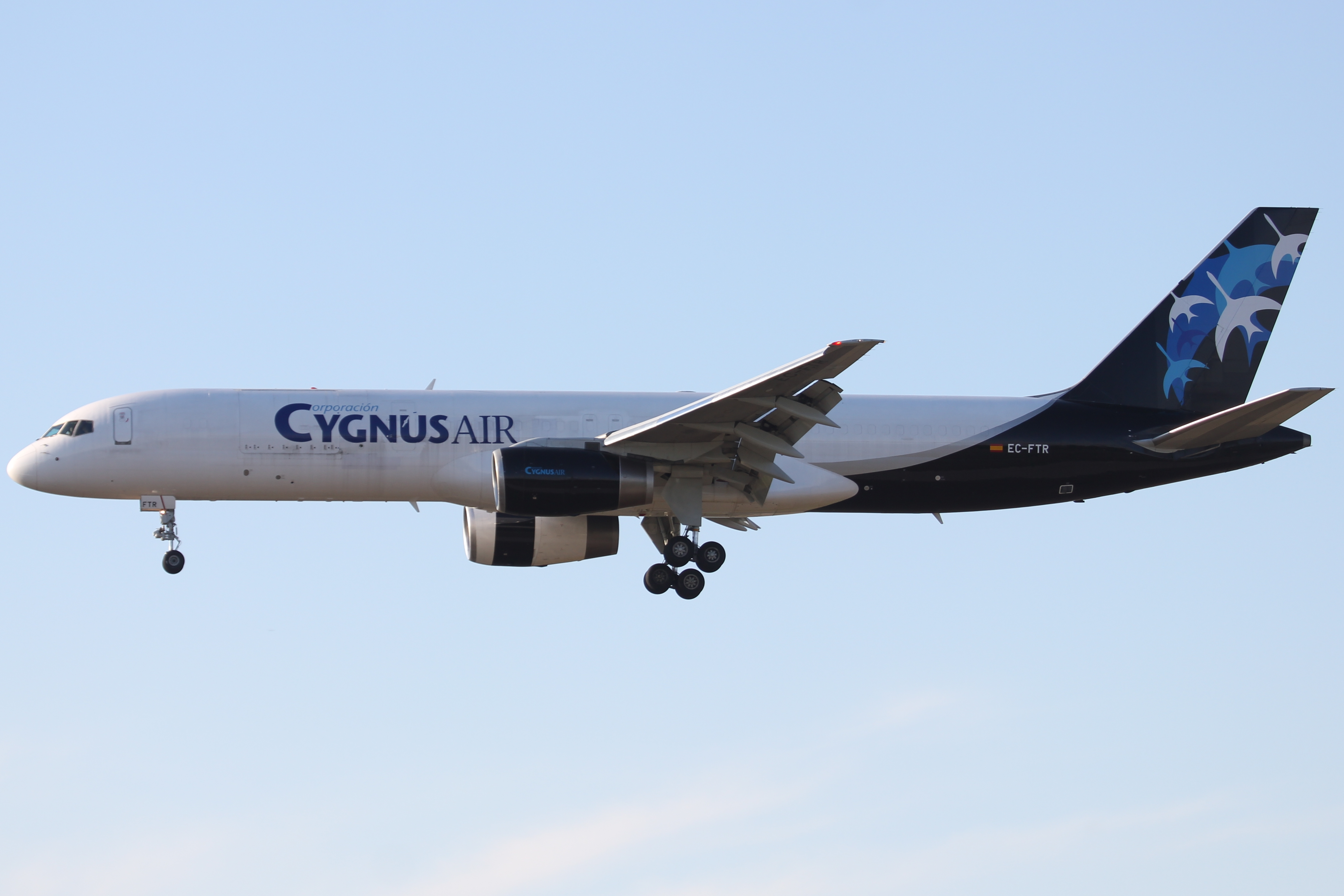 Cygnus Air Boeing 757-200 approaching Frankfurt Airport